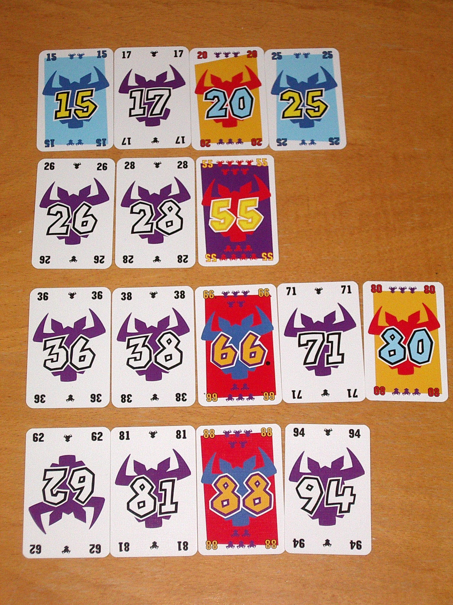 A typical game situation in 6 nimmt!